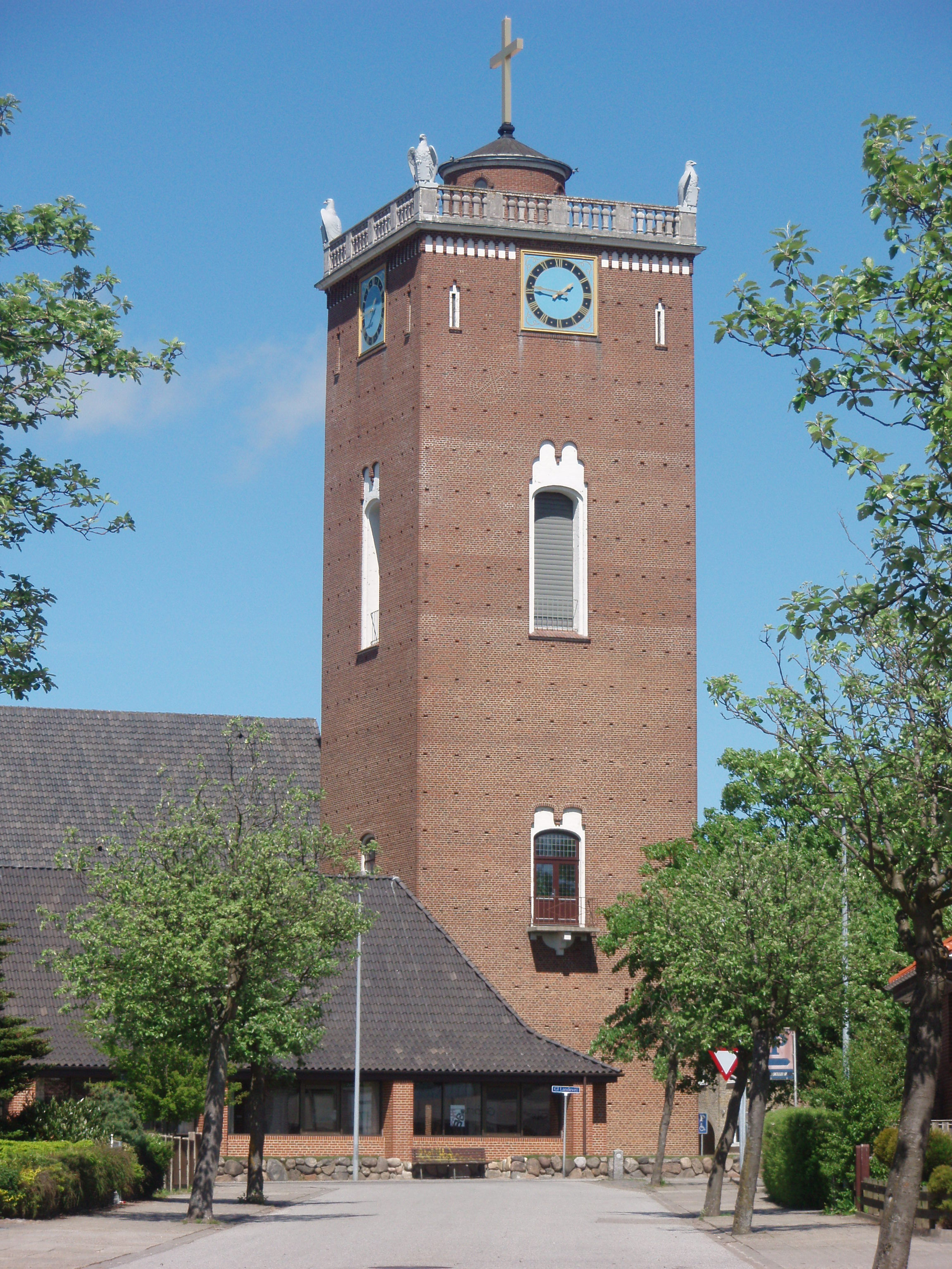 Water tower in Herning as a part of the church